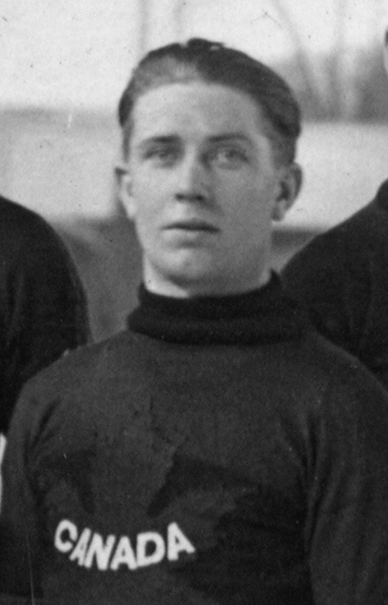 Ice hockey player Magnus "Mike" Goodman of the Winnipeg Falcons representing the Canadian national ice hockey team at the 1920 Summer Olympics in Antwerp, Belgium. The picture is a crop out of a larger team photo taken inside the ice rink Palais de Glace d'Anvers. The ice hockey tournament at the 1920 summer Olympics took place between April 23 and April 29. The canadian team won gold medals at the games.